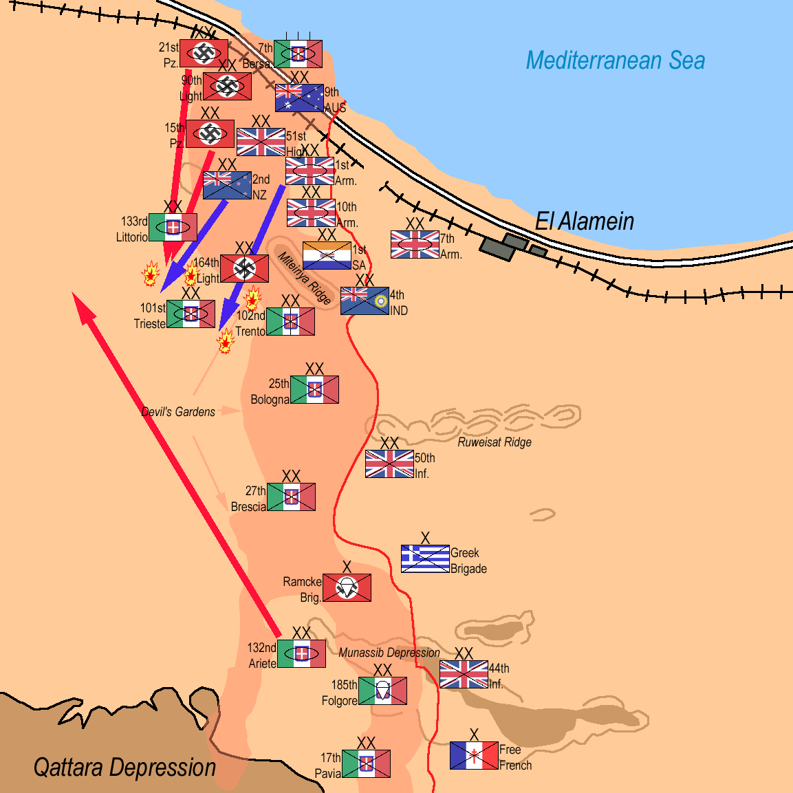 Second Battle of El Alamein: 2nd New Zealand Division and 1st Armoured Division attack south and push back Trieste Division: 1am November 2nd, 1942. 15th Panzer Division and 21st Panzer Division counterattack- Tank Battle of Tell el Aqqaqir: 9am November 2nd, 1942. Ariete Armoured Division moves north: November 2nd, 1942. Trento, Bologna, Pavia, Brescia, Folgore Divisions and Ramcke Brigade begin retreat: 10pm November 2nd, 1942.